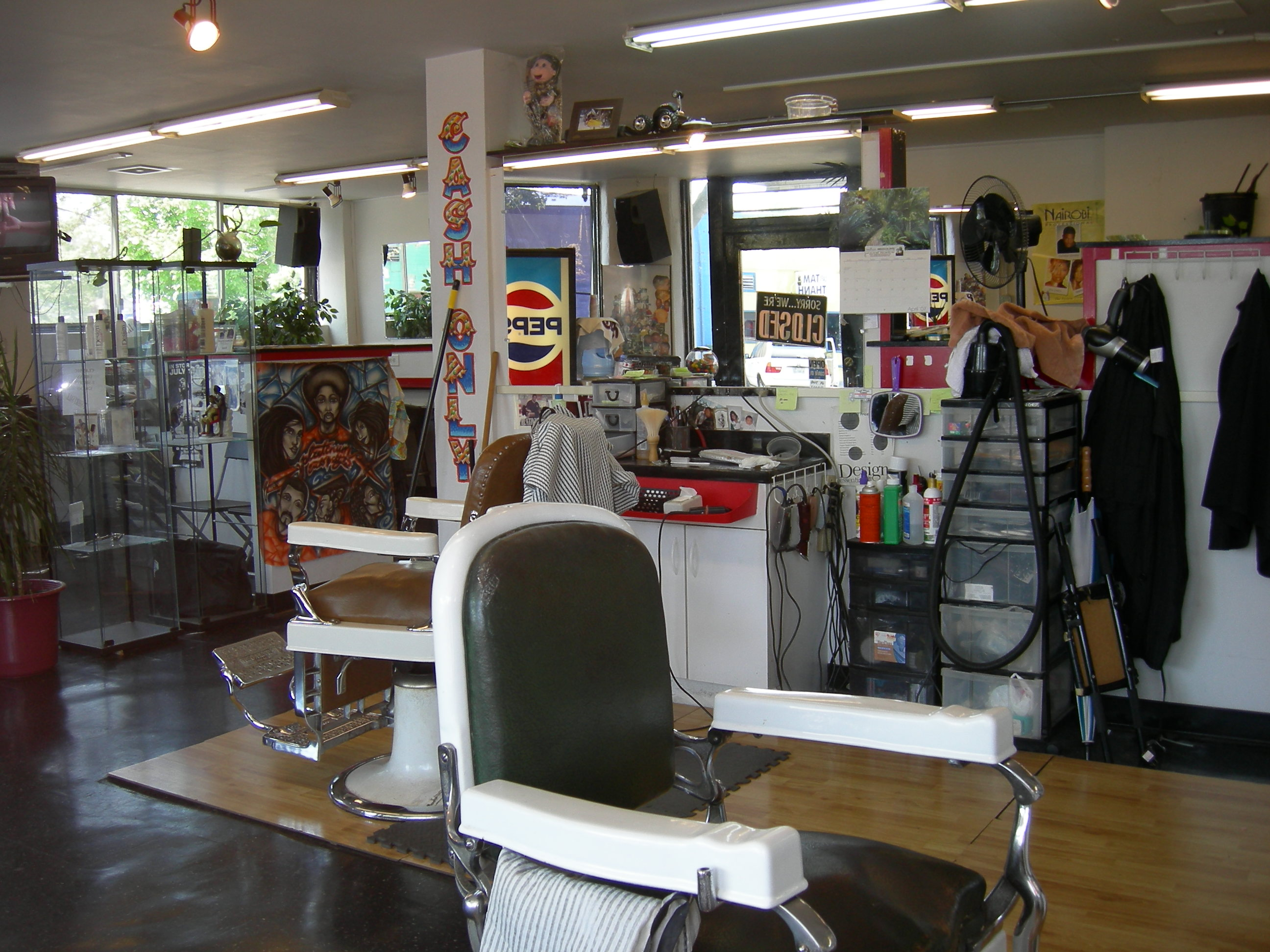 Barber shop, Rozella building, White Center, Washington. White Center straddles the Seattle city line, this is within Seattle.